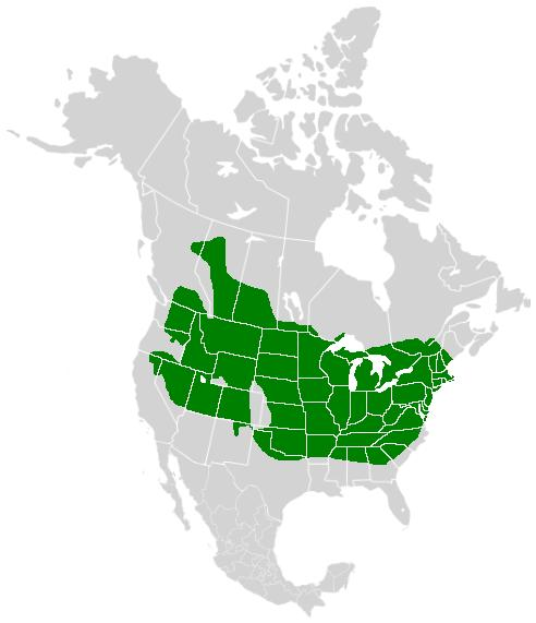 A range map showing the distribution of the Coral Hairstreak, (Satyrium titus)